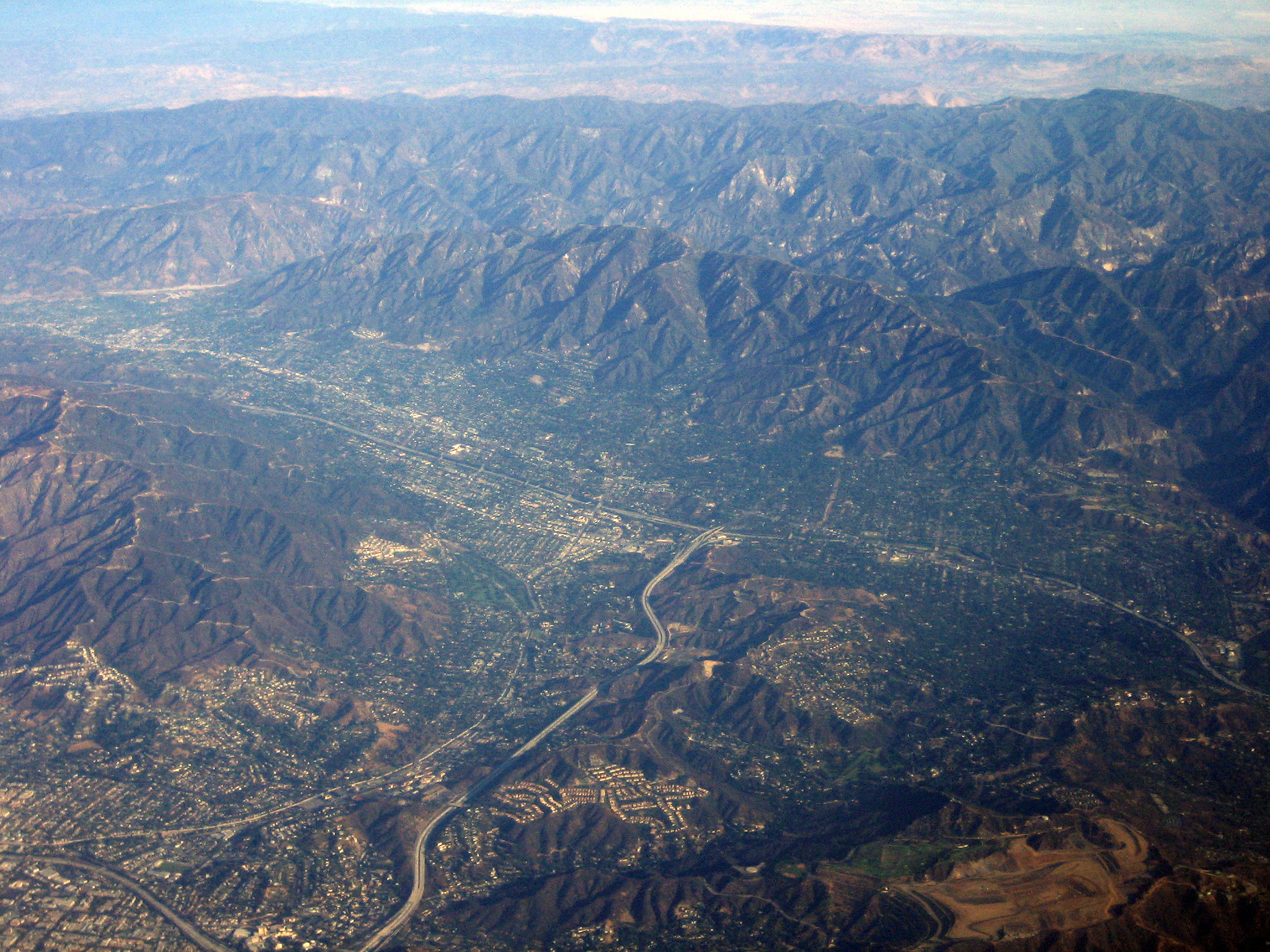 From a jet airliner looking North. The community of La Crescenta is in the center of the picture, approximately where Highway 210 (East-West/Right-Left) and Highway 2 (North-South/Center to lower left) intersect. A section of the 134 freeway is visible in the lower left. The desert can be seen in the background, behind the mountains. Canon PowerShot SD200 settings: 1/400 sec., f 7.1, lens focal length 10.093 mm)